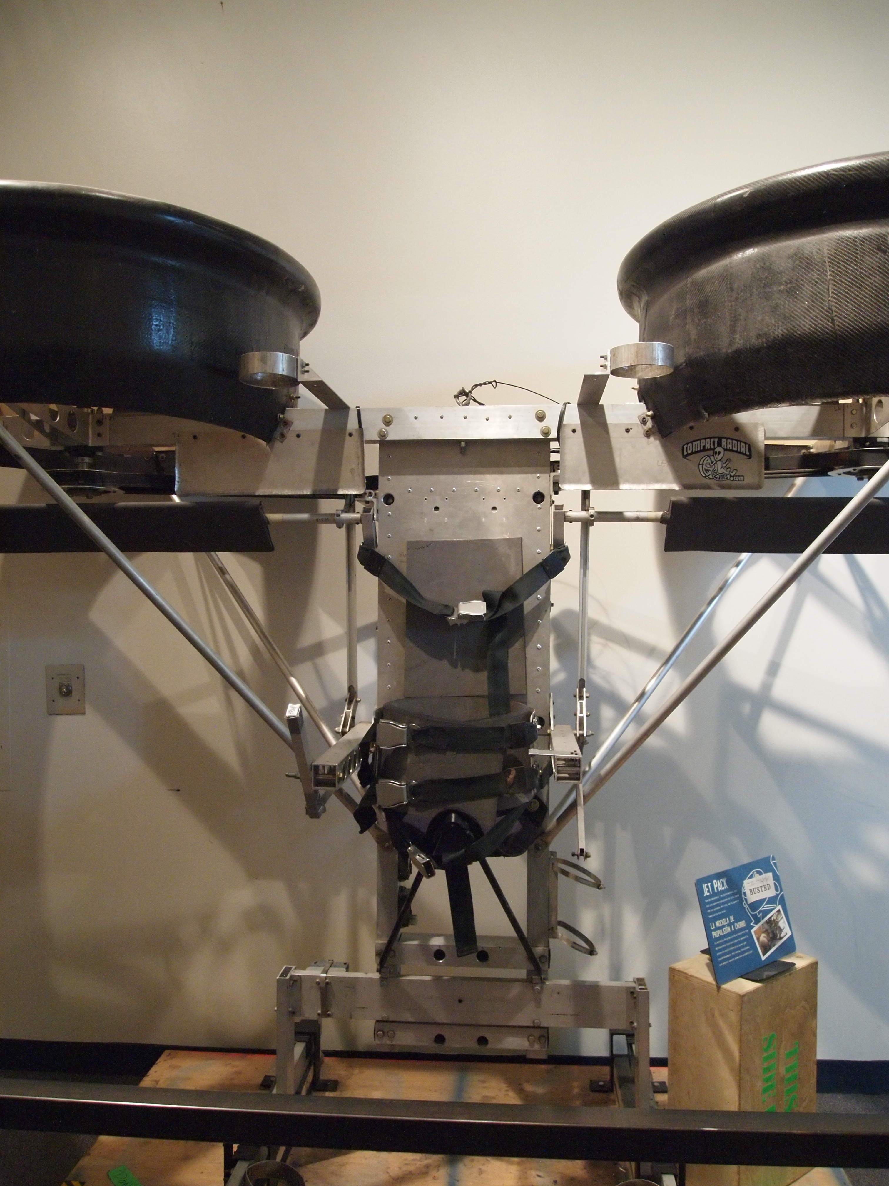 MythBusters Jet Pack